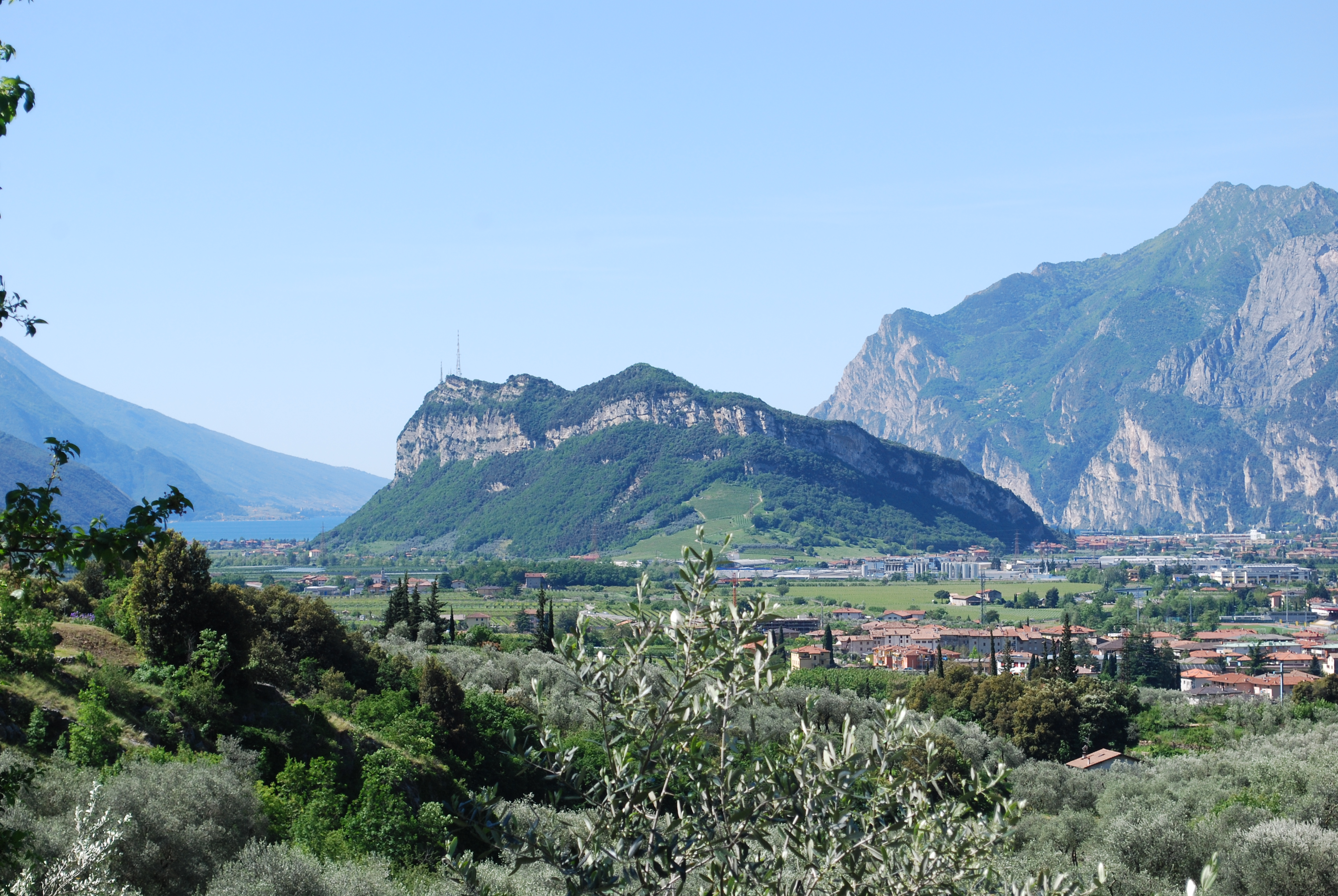 Monte Brione from N (Massone)